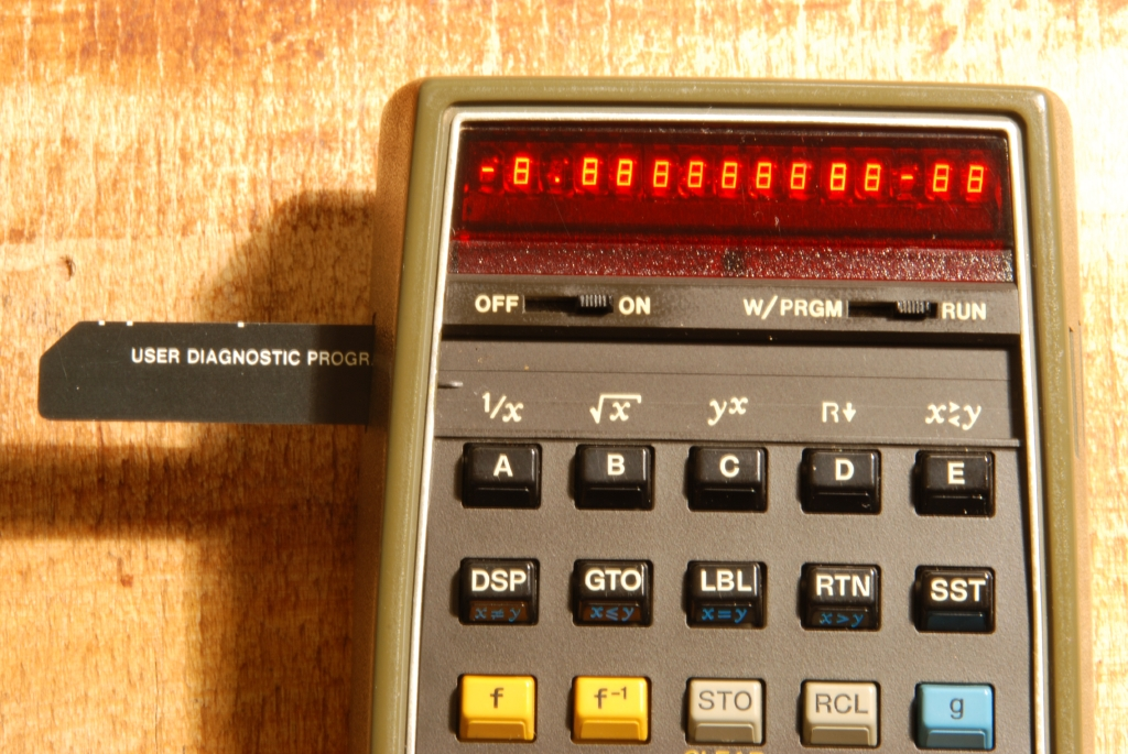 HP65 display after result of test programm from card reader